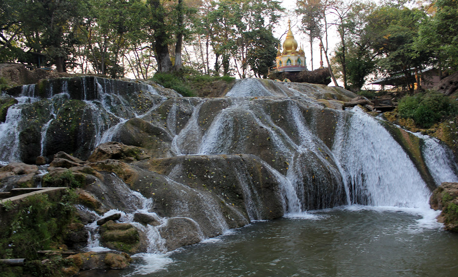 Pwe Kauk or B.E. waterfallမြန်မာဘာသာ: ပွဲကောက်ရေတံခွန် ဘီအီးဖော